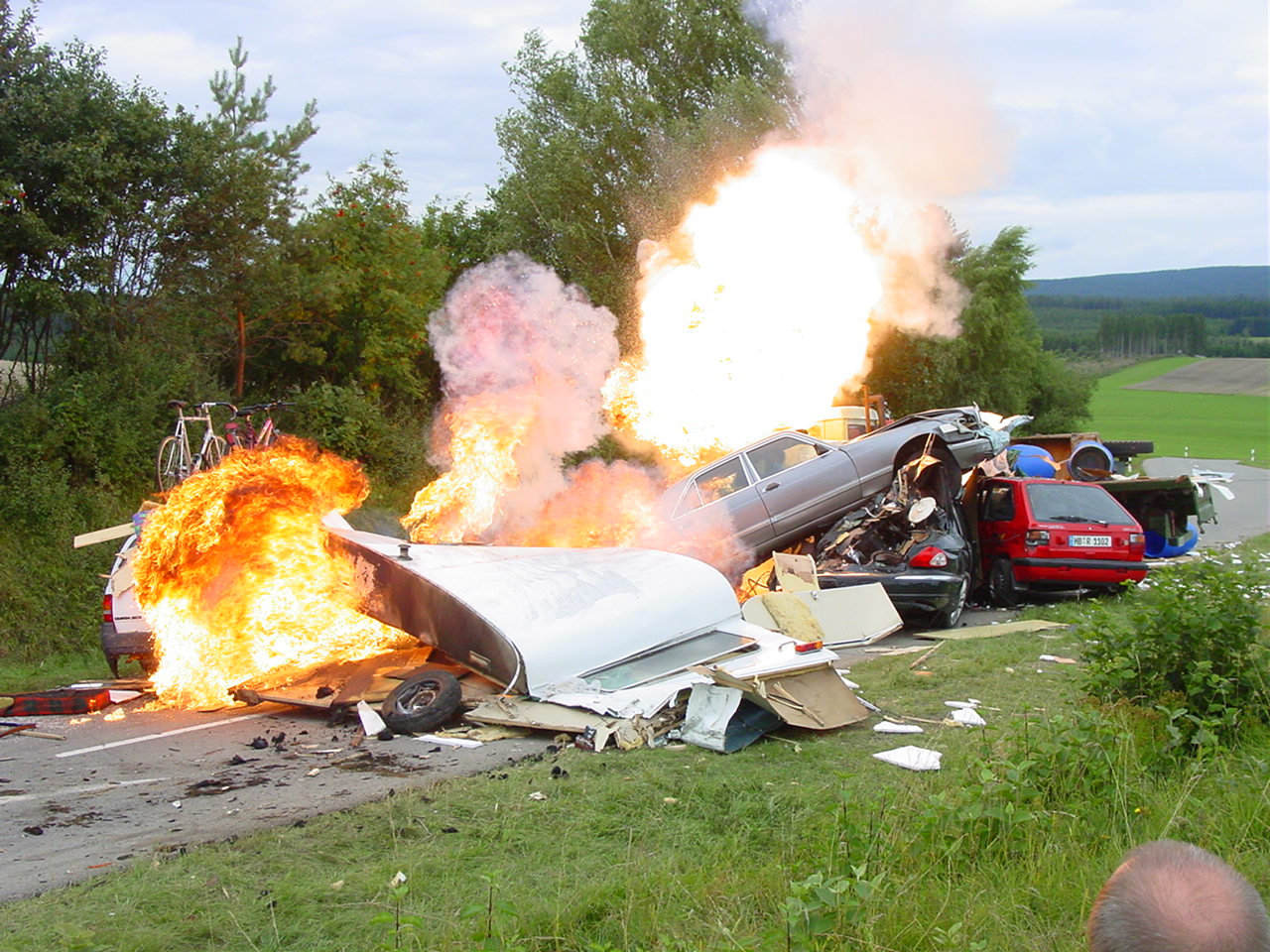 Unmanned vehicle stunt, performed with CCV system. A Mercedes S-Klasse crashes in a traffic jam at ca. 120 km/h .